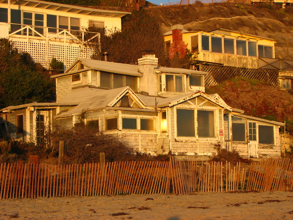 An example of the historic beach-front cottages in Crystal Cove State Park located in Laguna Beach, California.